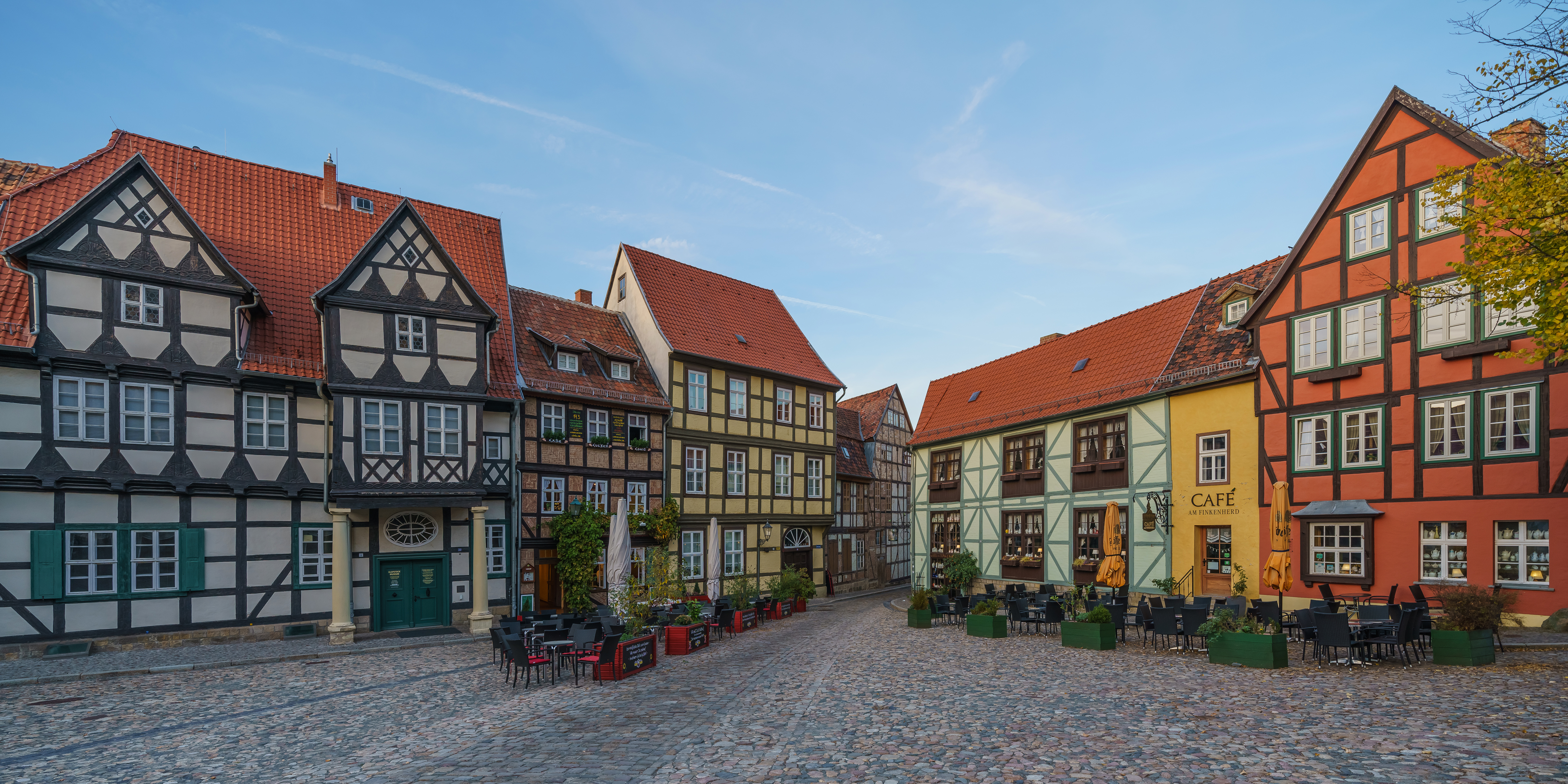 Old Town in Quedlinburg, Germany